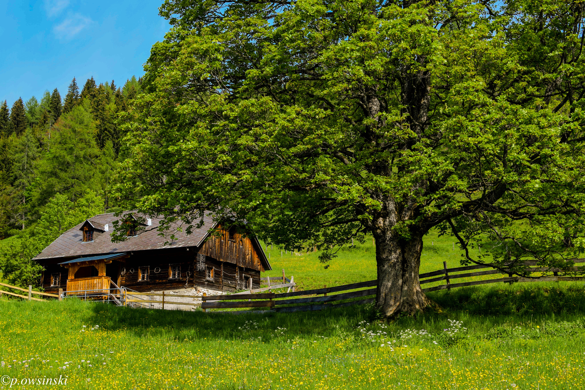 500px provided description: Wooden House In The Alps Austria [#Landscape ,#House ,#Countryside ,#Natur]